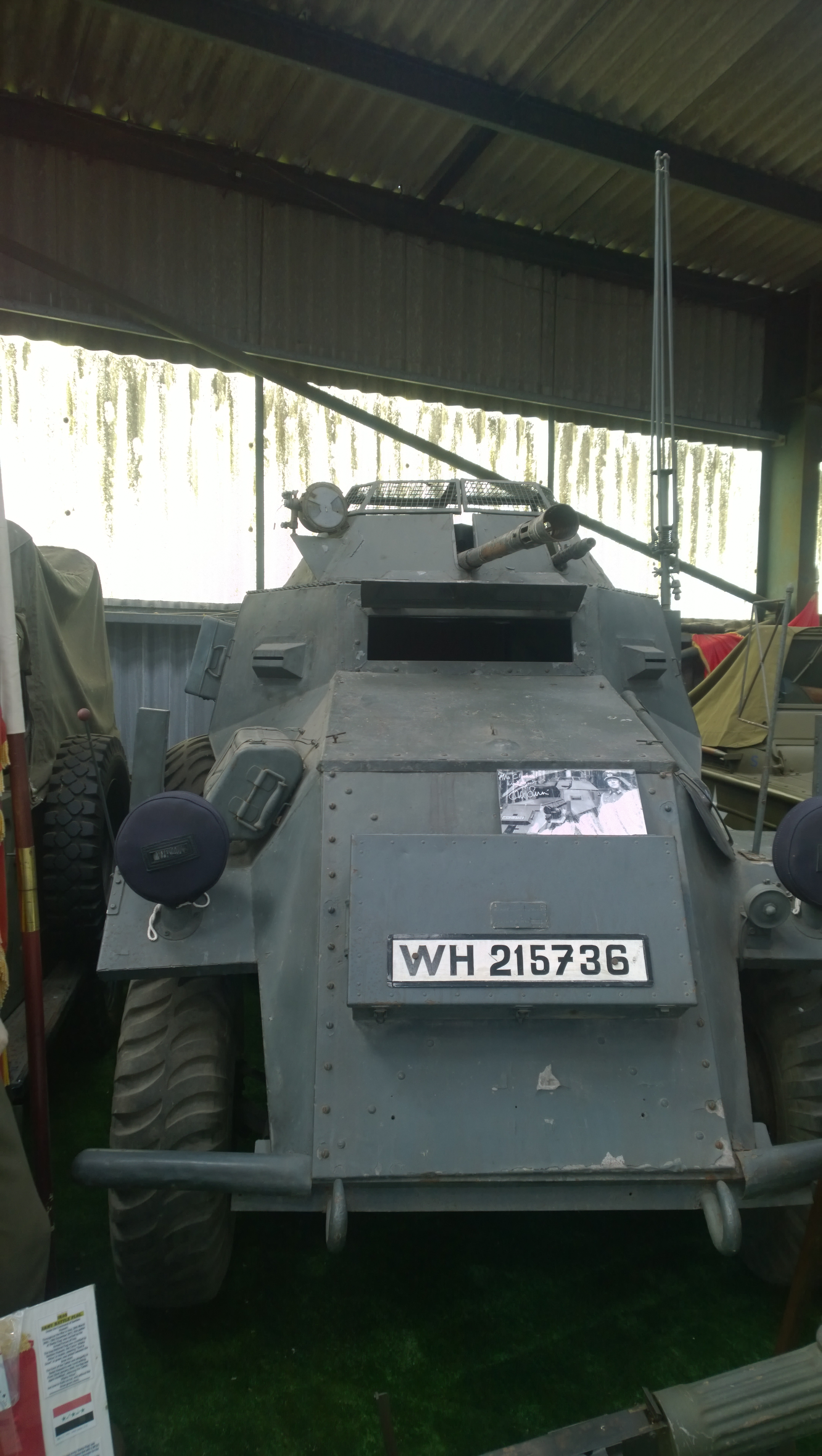 Armoured Vehicle used in the making of 'Allo 'Allo! TV Series at the History on Wheels Museum, Eton Wick, Windsor, UK